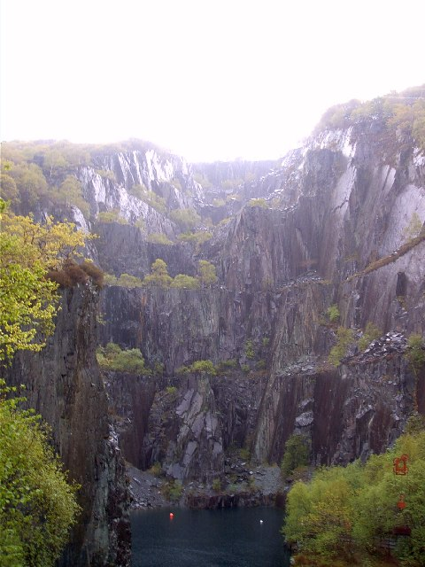 Sinc Vivian, Dinorwig Quarries, Wales